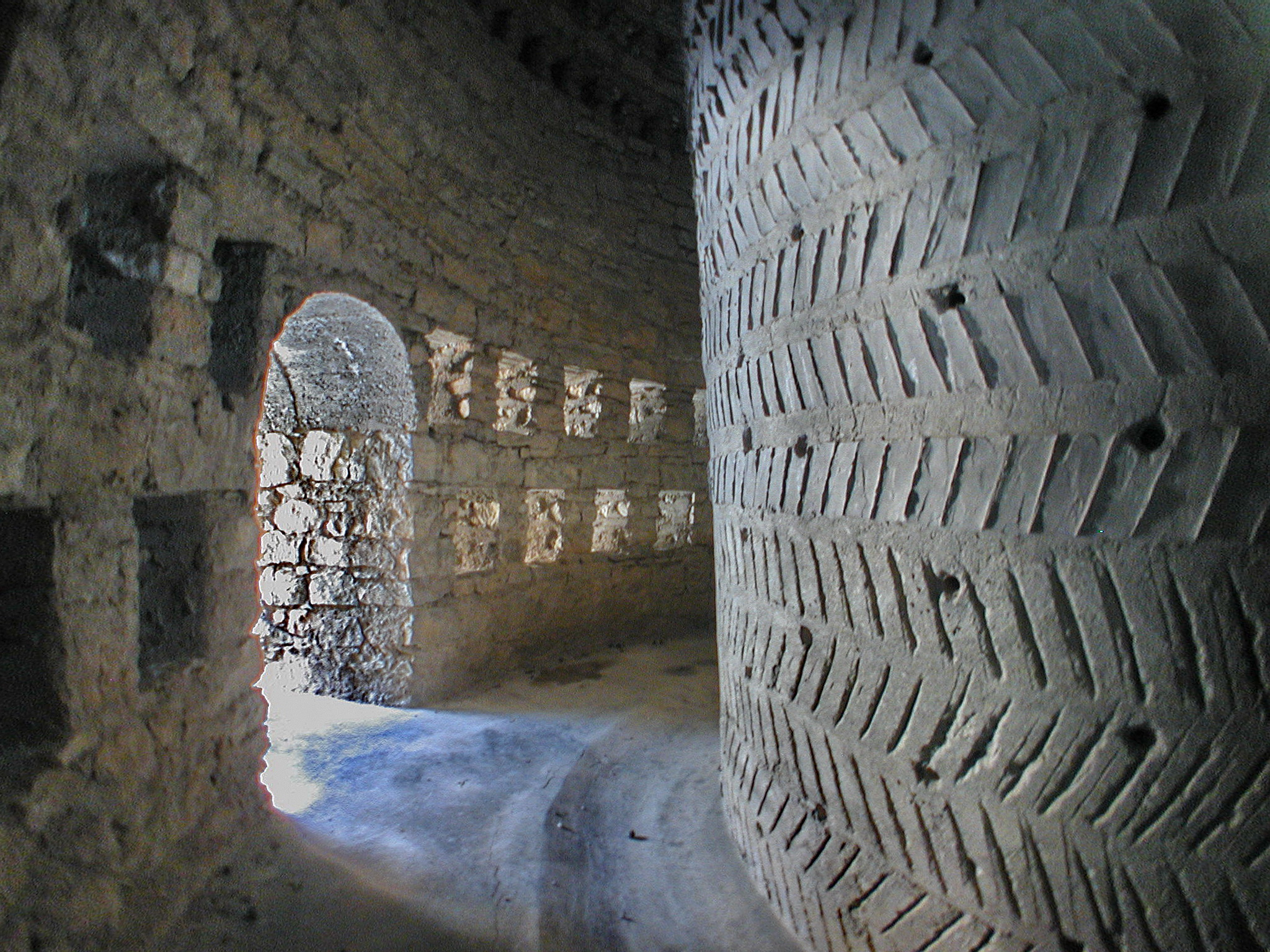 Dew tower of belgian engineer Achille Knapen in Trans-en-Provence Var